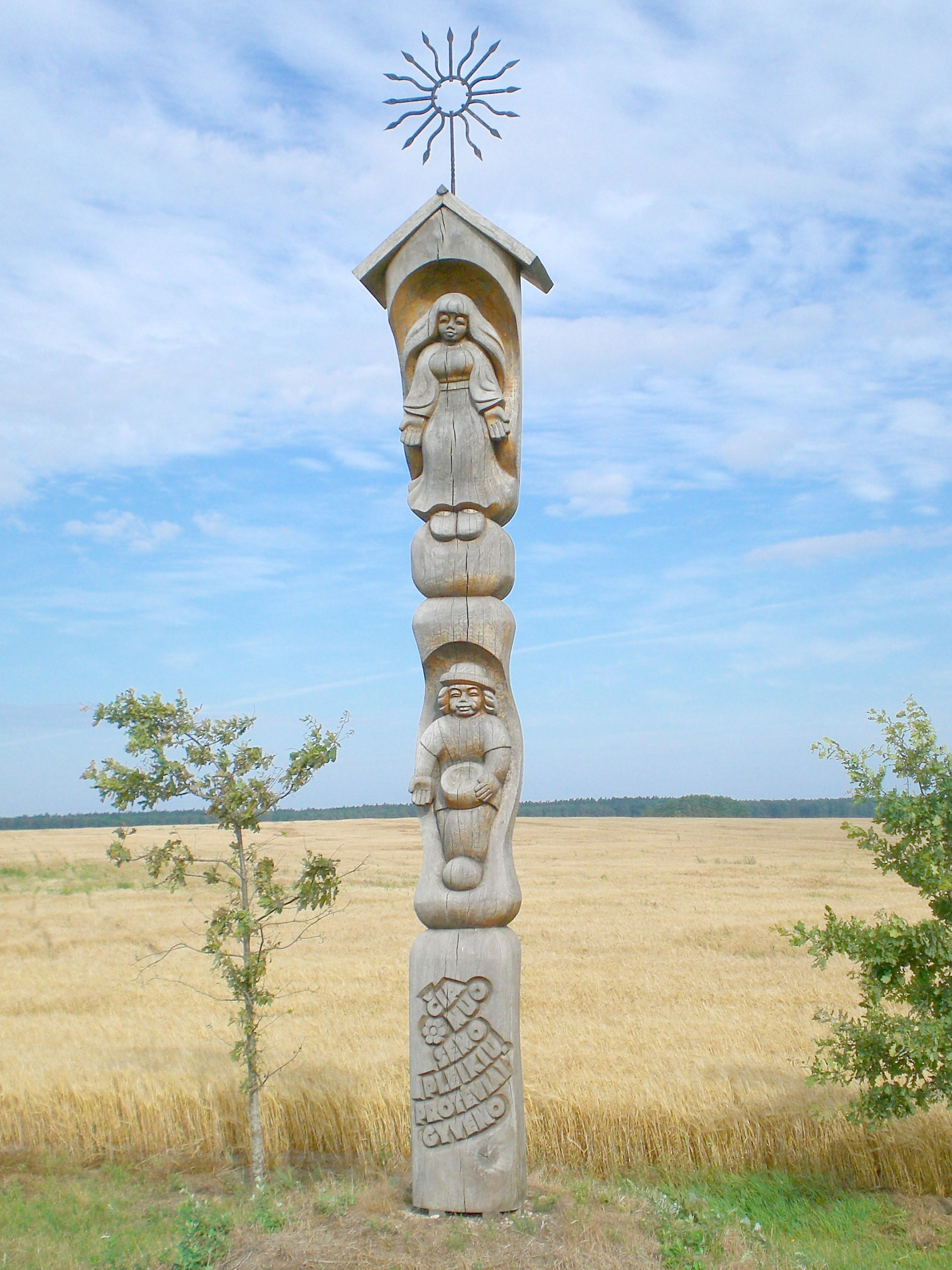 In the lithuanian village Žibininkai in the district community Kretinga, 4 km north east of Palanga, there is this wooden memorial. Its text simply means: "Long ago, here lived the ancestors of the family Pleikiai".